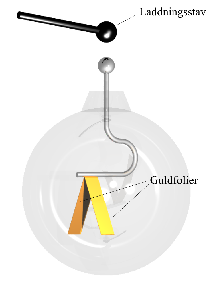 Electrometer